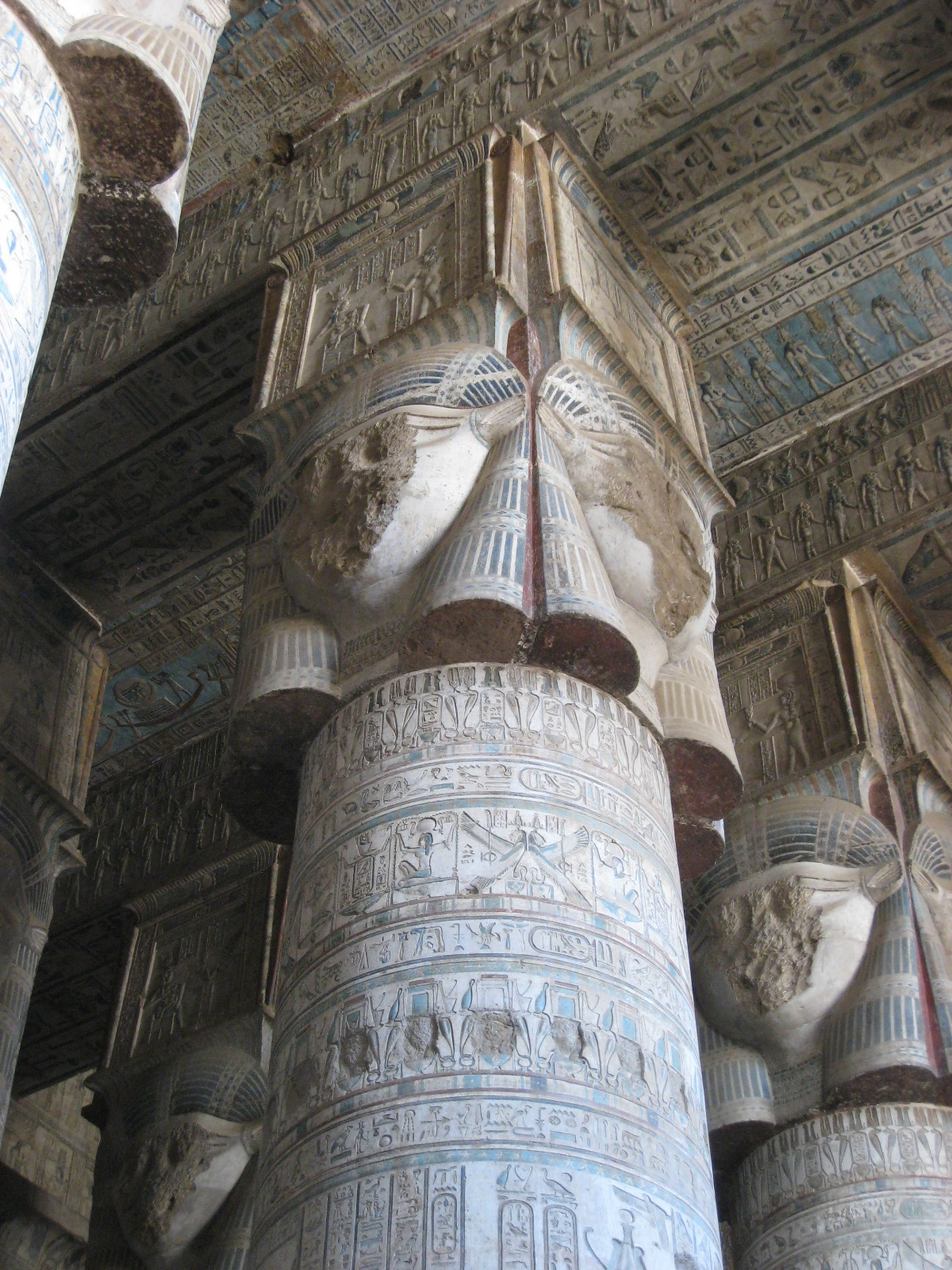 Hathor column of Dendera temple in detail